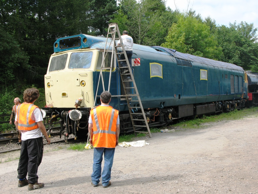 Members of the South Devon Diesel Group restoring Class 50 number 402 at Buckfastleigh on the South Devon Railway, England.